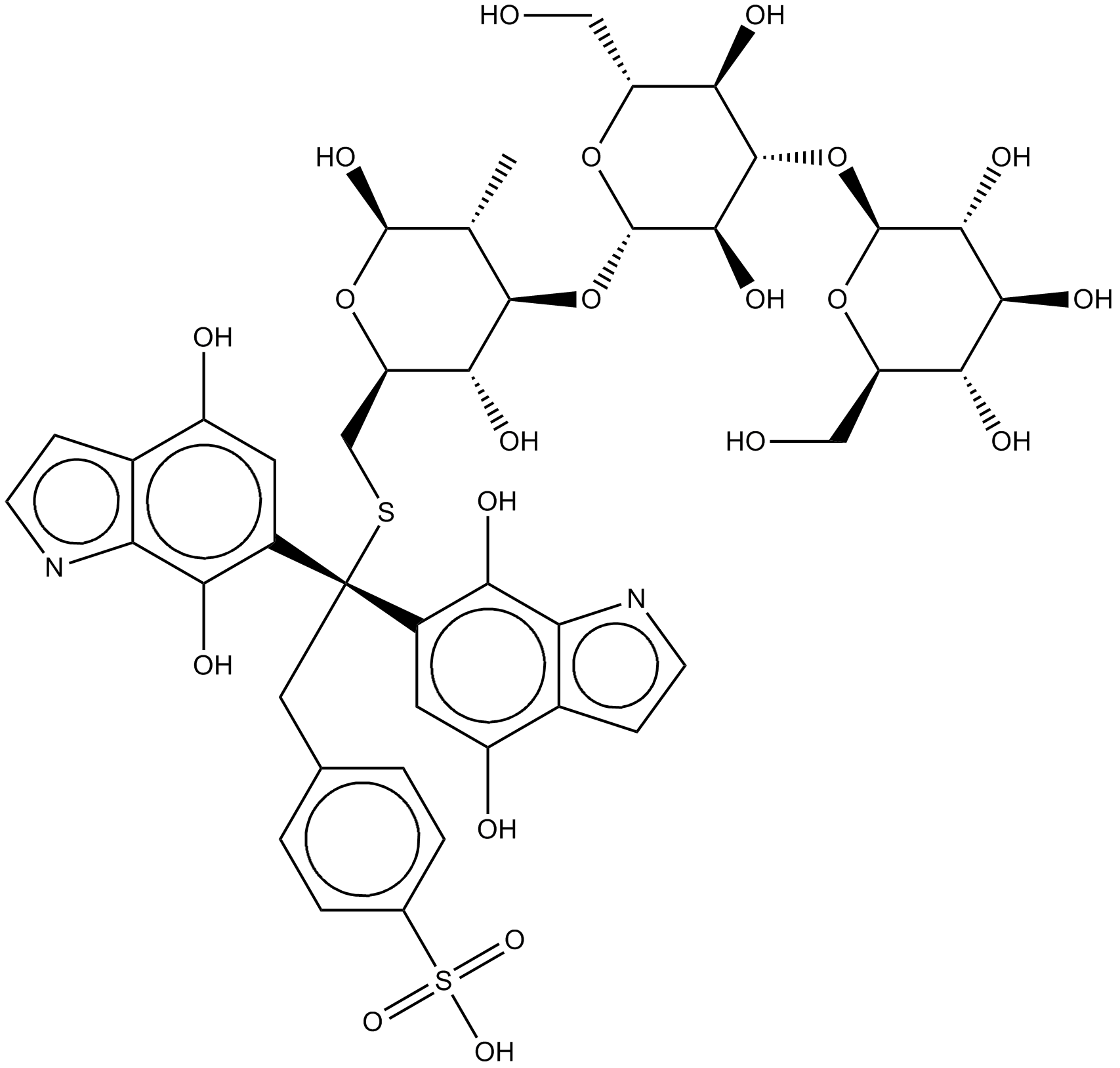 Possible 2D structure for thiotimoline, a compound invented by biochemist and author Isaac Asimov in 1948 as a joke.